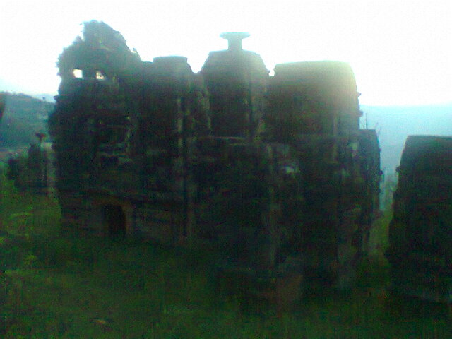 Bhurtika Devals